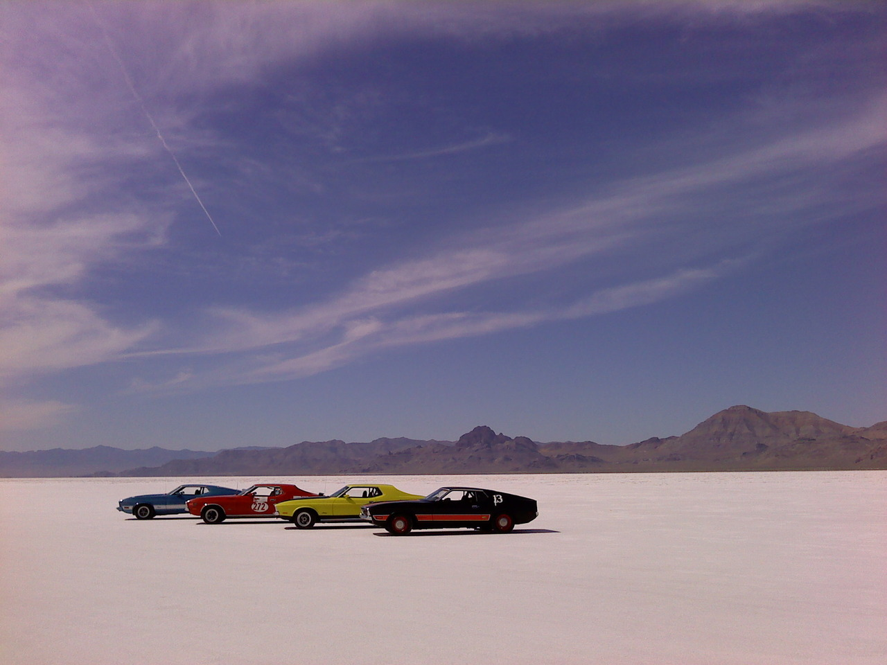 Managed by the BLM as an Area of Critical Environmental Concern and Special Recreation Management Area, the Bonneville Salt Flats are a 30,000 acre expanse of hard, white salt crust on the western edge of the Great Salt Lake basin in Utah. “Bonneville” is also on the National Register of Historic Landmarks because of its contribution to land speed racing. The salt flats are about 12 miles long and 5 miles wide with total area coverage of just over 46 square miles. Near the center of the salt, the crust is almost 5 feet thick in places, with the depth tapering off to less than 1 inch as you get to the edges. Total salt crust volume has been estimated at 147 million tons or 99 million cubic yards of salt! The remote and rugged Bonneville Salt Flats serve as a fitting backdrop forIndependence Day, Pirates of the Caribbean: At World’s End, Con Air, The World’s Fastest Indian, Mulholland Falls, and many more films. The BLM’s Bonneville Salt Flats also attracts amateur racers from all over the world for the annual SPEED WEEK, with timed speed events on 3 to 5 mile straightaway tracks. Learn more about the history of this unique location: Photo courtesy BLM Utah